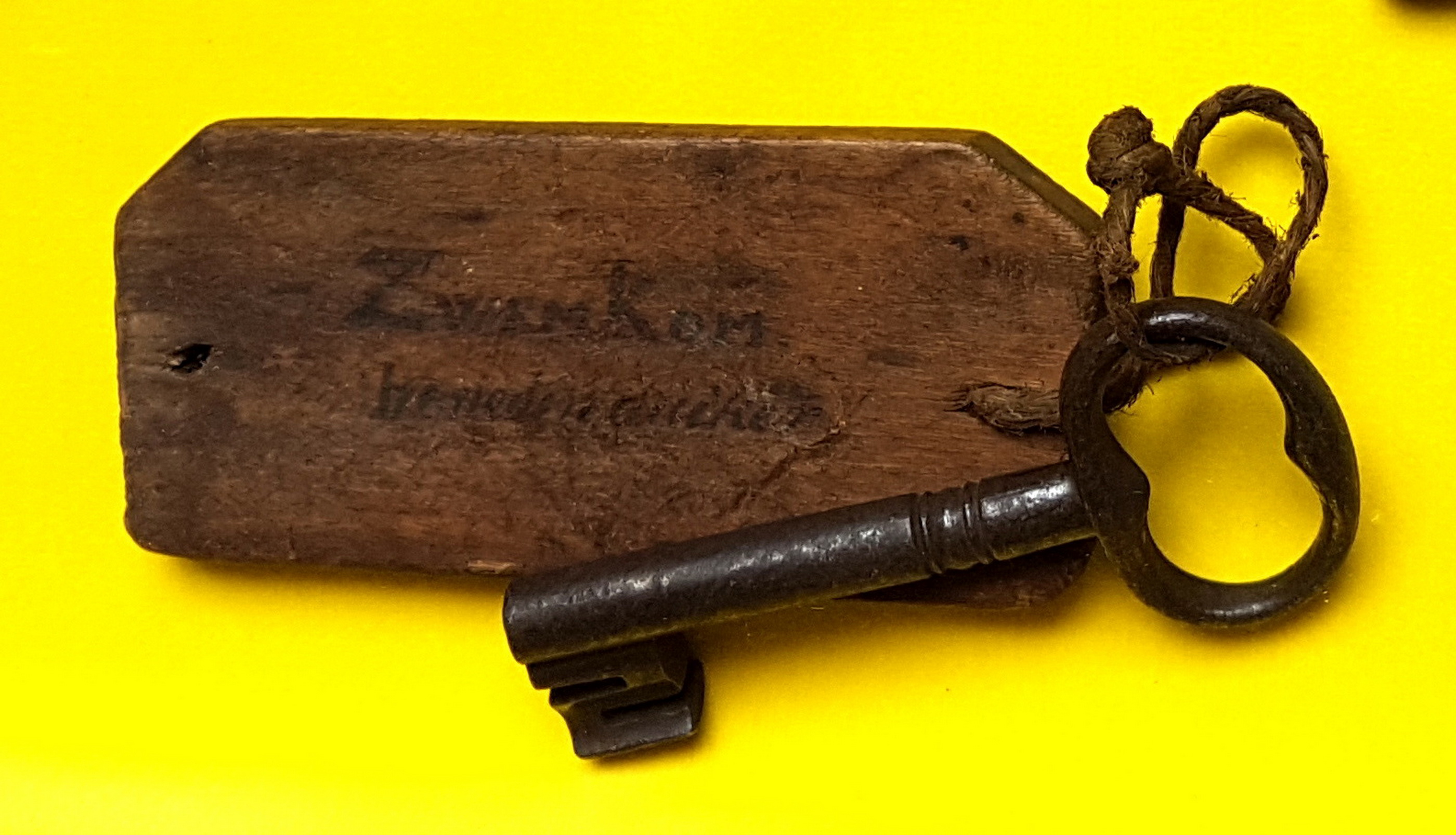 Door key of the lower culvert (beneden duiker) in the inundation area De Kommen, that was part of the fortifications of Maastricht until 1867. Now in the local history collection of Centre Céramique, Maastricht, the Netherlands. Photographed at a temporary exhibition in the east corridor of the cloisters of the Basilica of Saint Servatius in Maastricht.